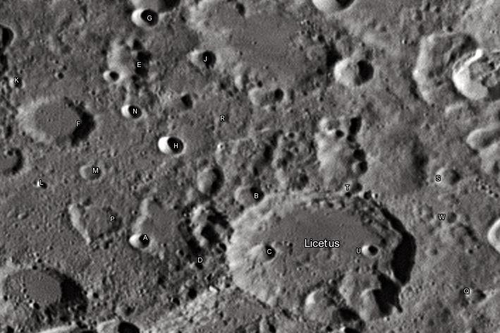 Licetus lunar crater as seen from Earth with satellite craters labeled